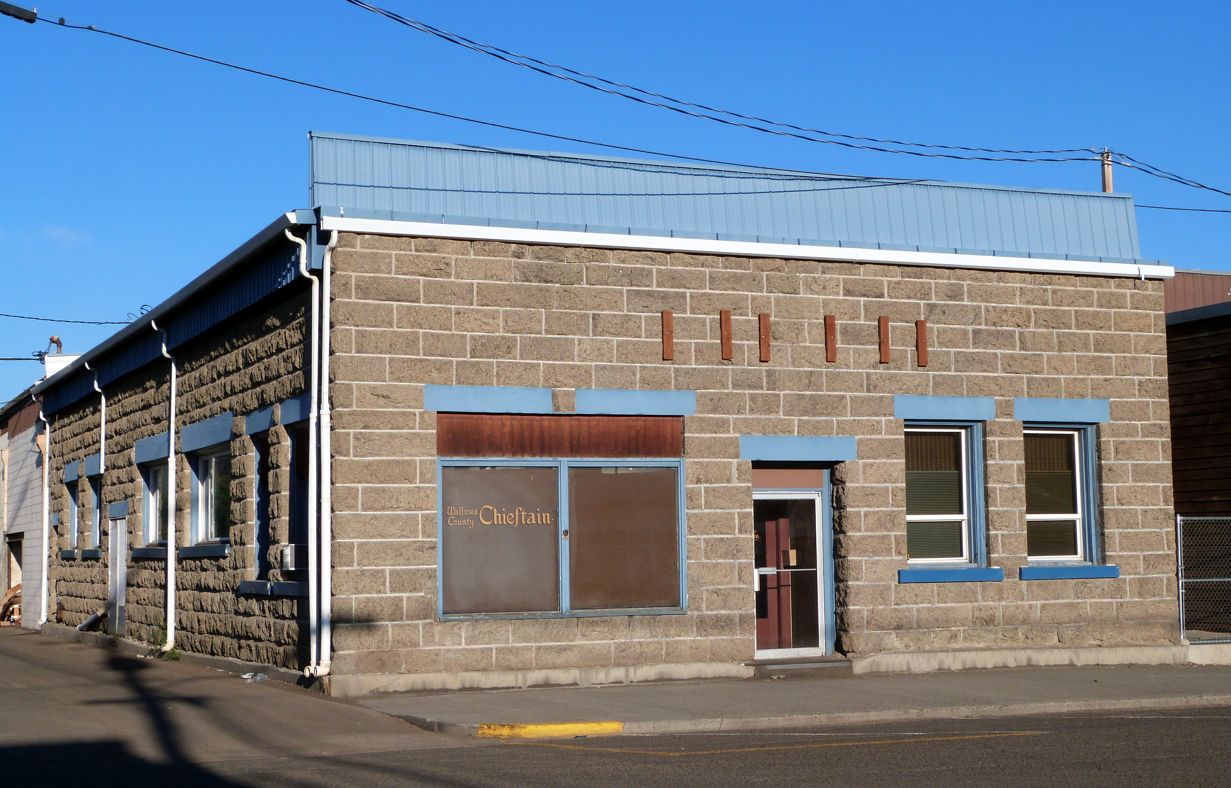 The historic Wallowa County Chieftain Building (built 1916), located at 106 Northwest 1st Street in Enterprise, Oregon, United States, is listed on the US National Register of Historic Places. The building is no longer occupied by the Chieftain offices.